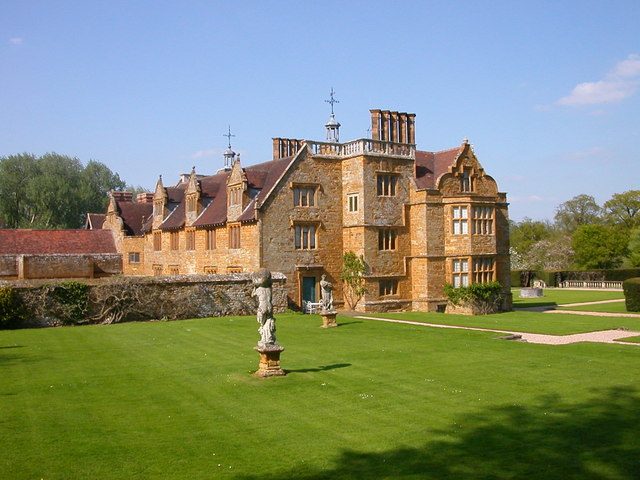 Ashby St Ledgers Manor House. In 2005 the Queen bought the Ashby St Ledgers estate so it became part of the Crown estate. The manor house is said to be where, in 1605, the Gunpowder Plot was plotted. The estate will continue to be run as an agricultural business, but run by the Rural directorate of the Crown estate.